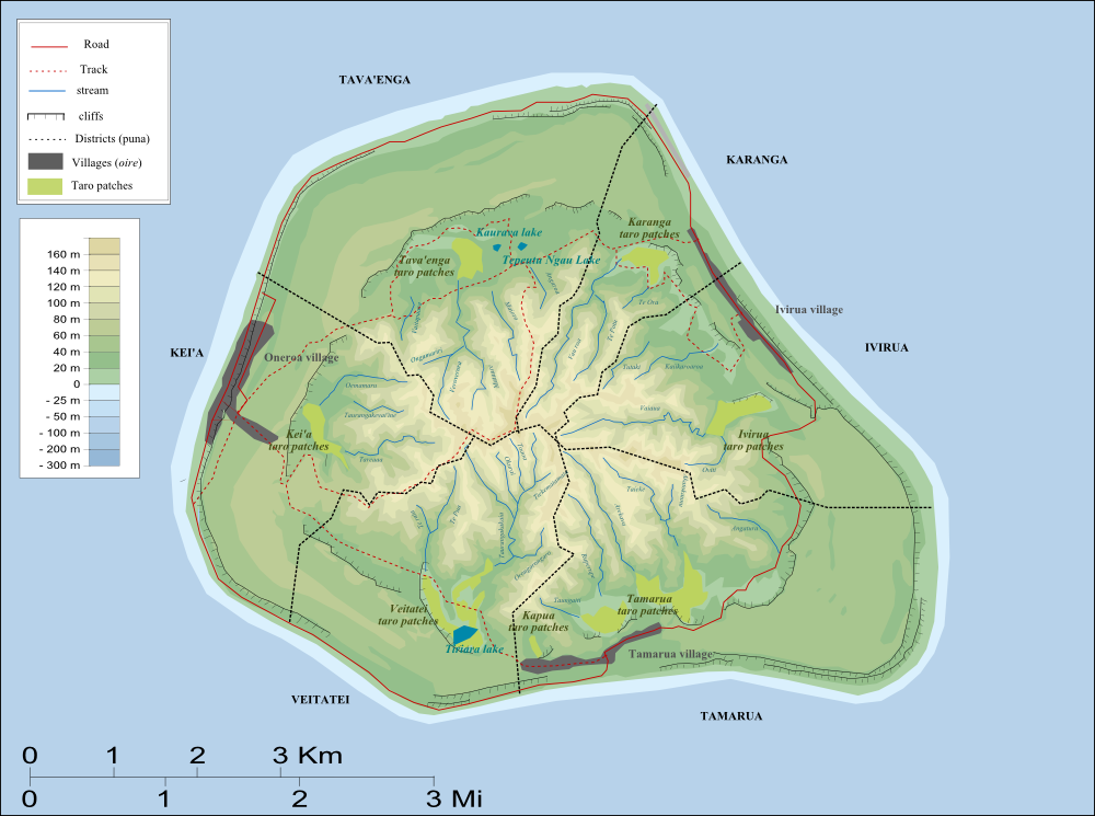 Map of Mangaia